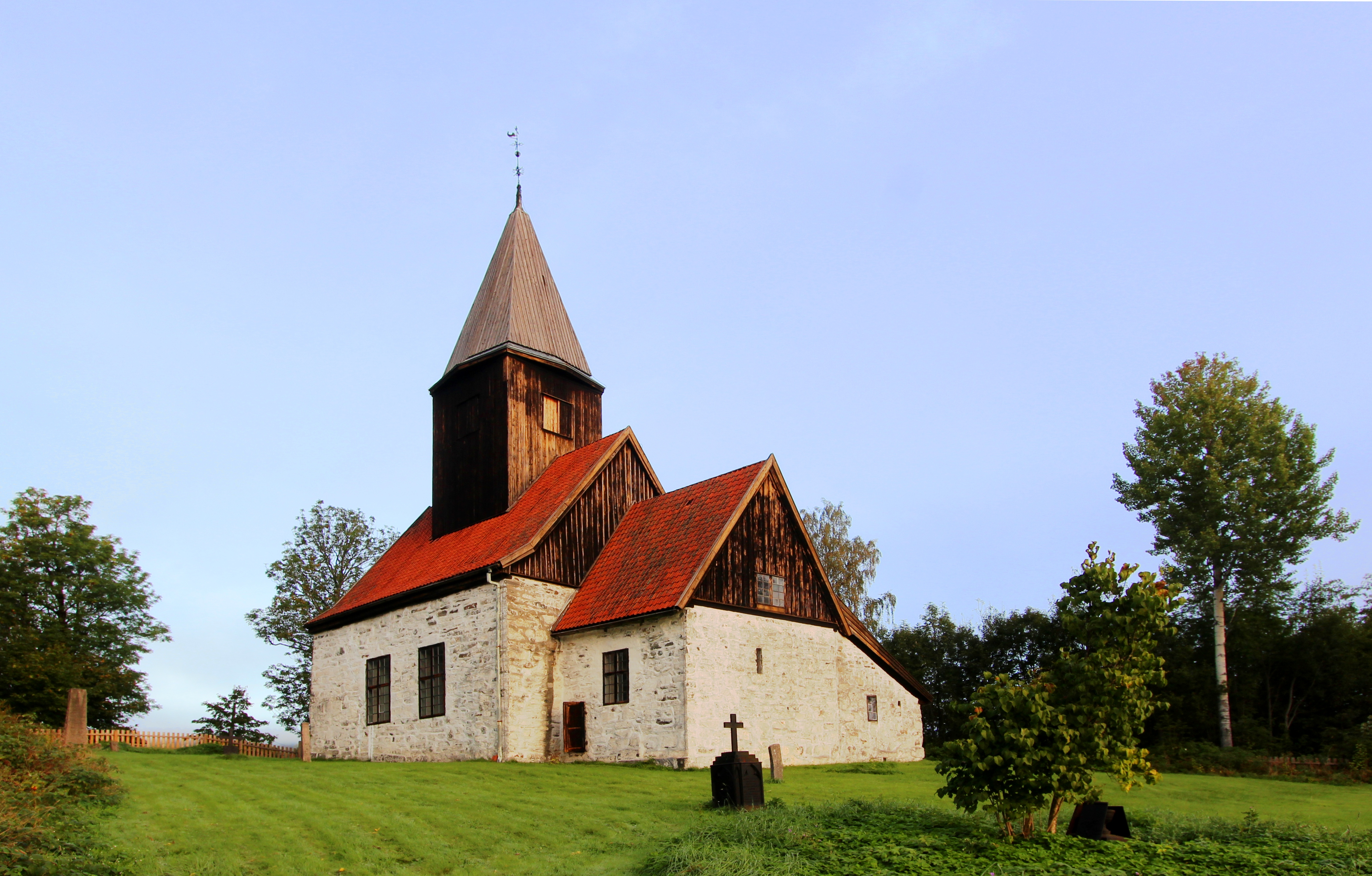 The old church at Fiskum, seen from the south.